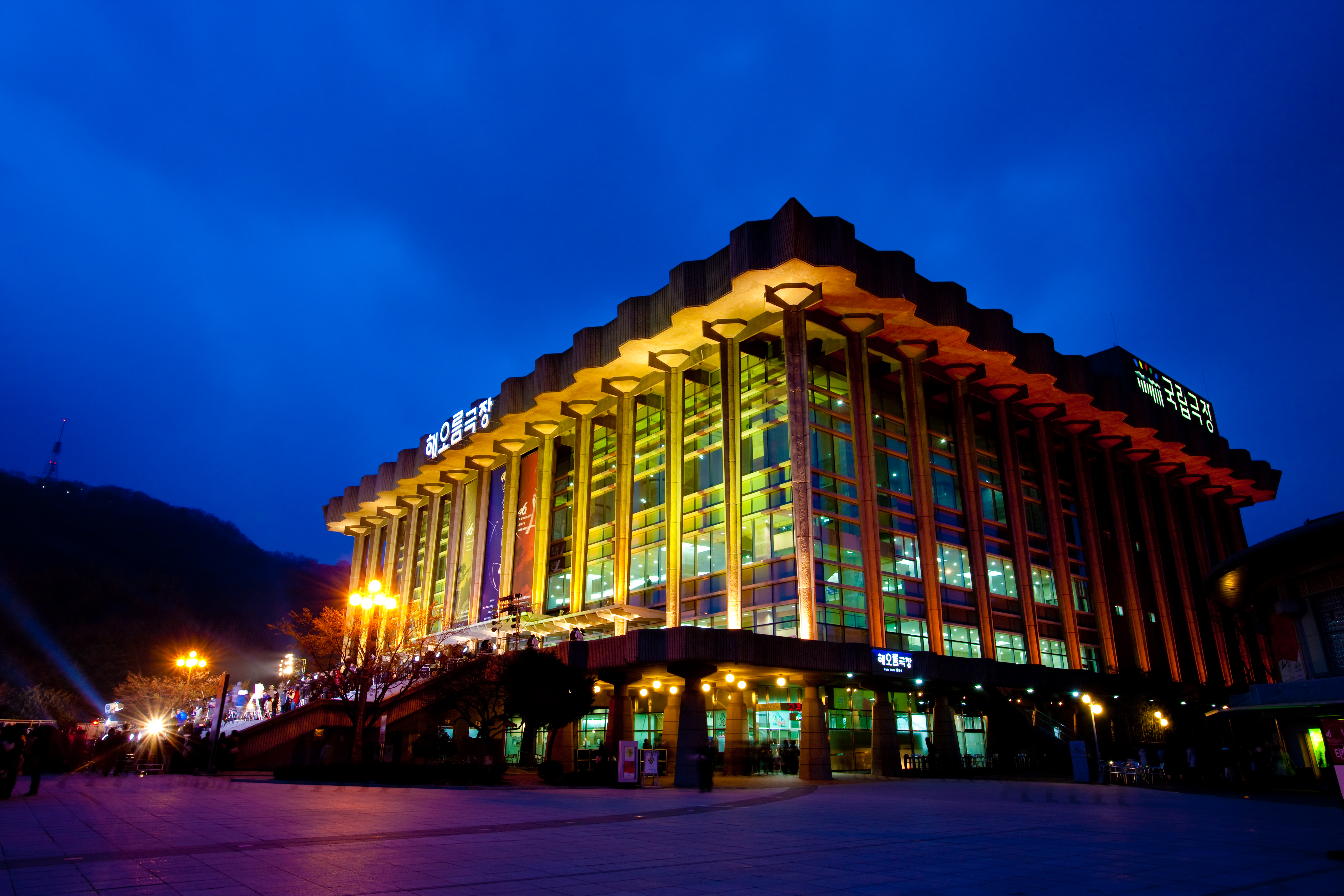 the National Theater of Korea